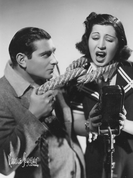 Publicity photo of Jesse Block and Eve Sully, who were husband and wife as well as a performing team.